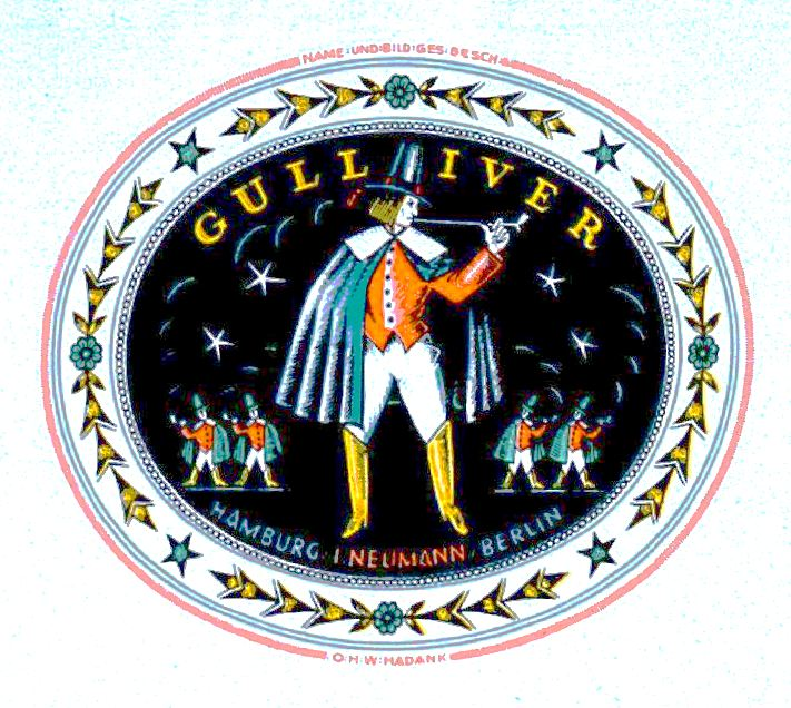 g